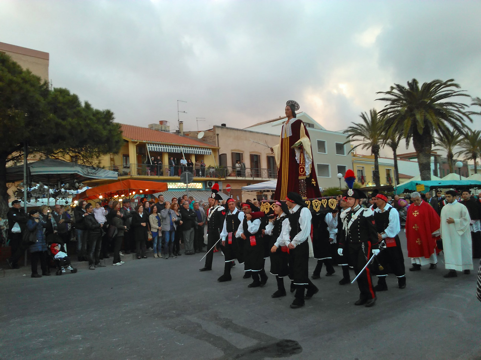 Procession of the Sant'Antioco martyr statue during the 656th edition of his feast in Sant'Antioco, Sardinia, Italy